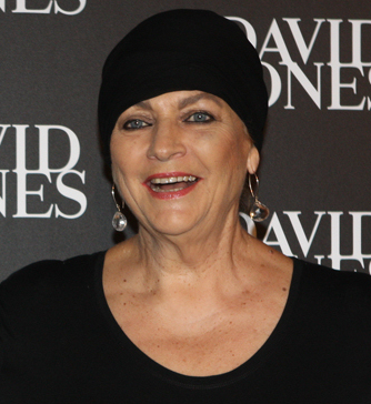 Maggie Tabberer at the 2012 David Jones Autumn Winter Launch in Sydney